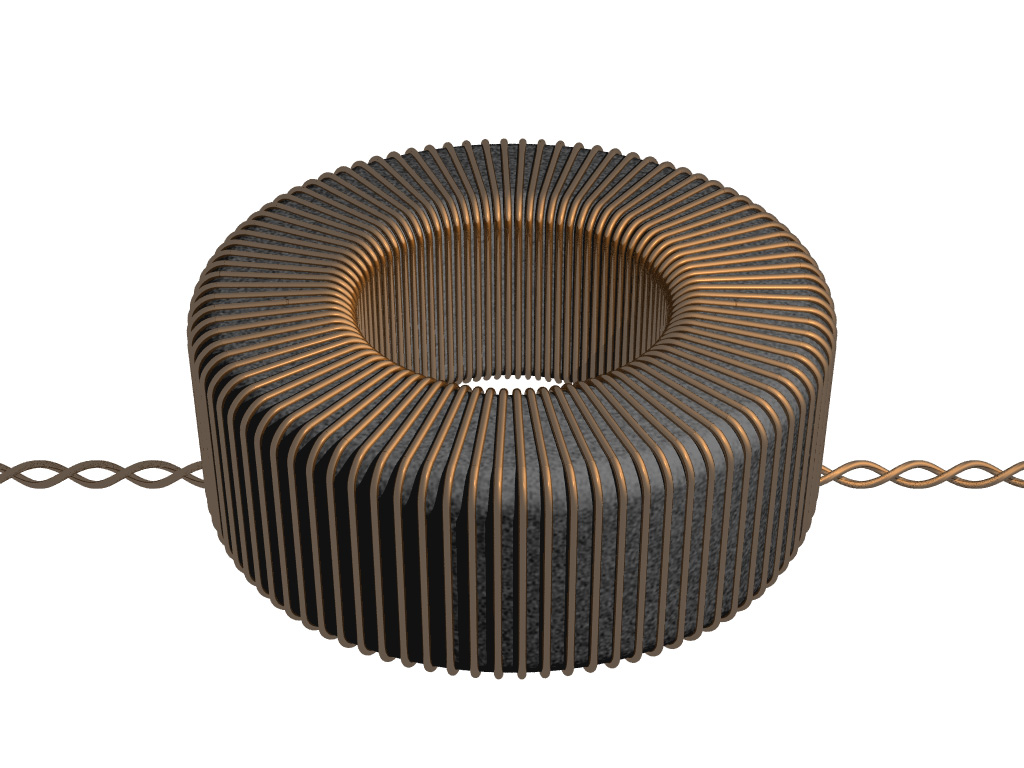 A toroidal ferrite core. Drawn in POV-Ray 3.6. Underlying shape derived from Image:Toroid core.png by CyrilB. In practice the number of turns of wire would be very much higher.